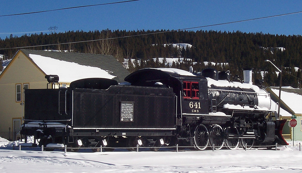 The Colorado and Southern's last operating standard-gauge steam locomotive, she ran on the Climax-Leadville run until 1962 when diesel finally took over. Currently parked at the LC&S depot here in town.